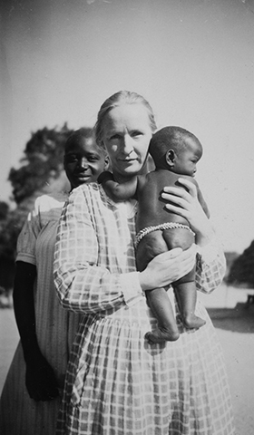 Photograph of the Finnish missionary worker Linda Helenius (1894–1960) with a baby.